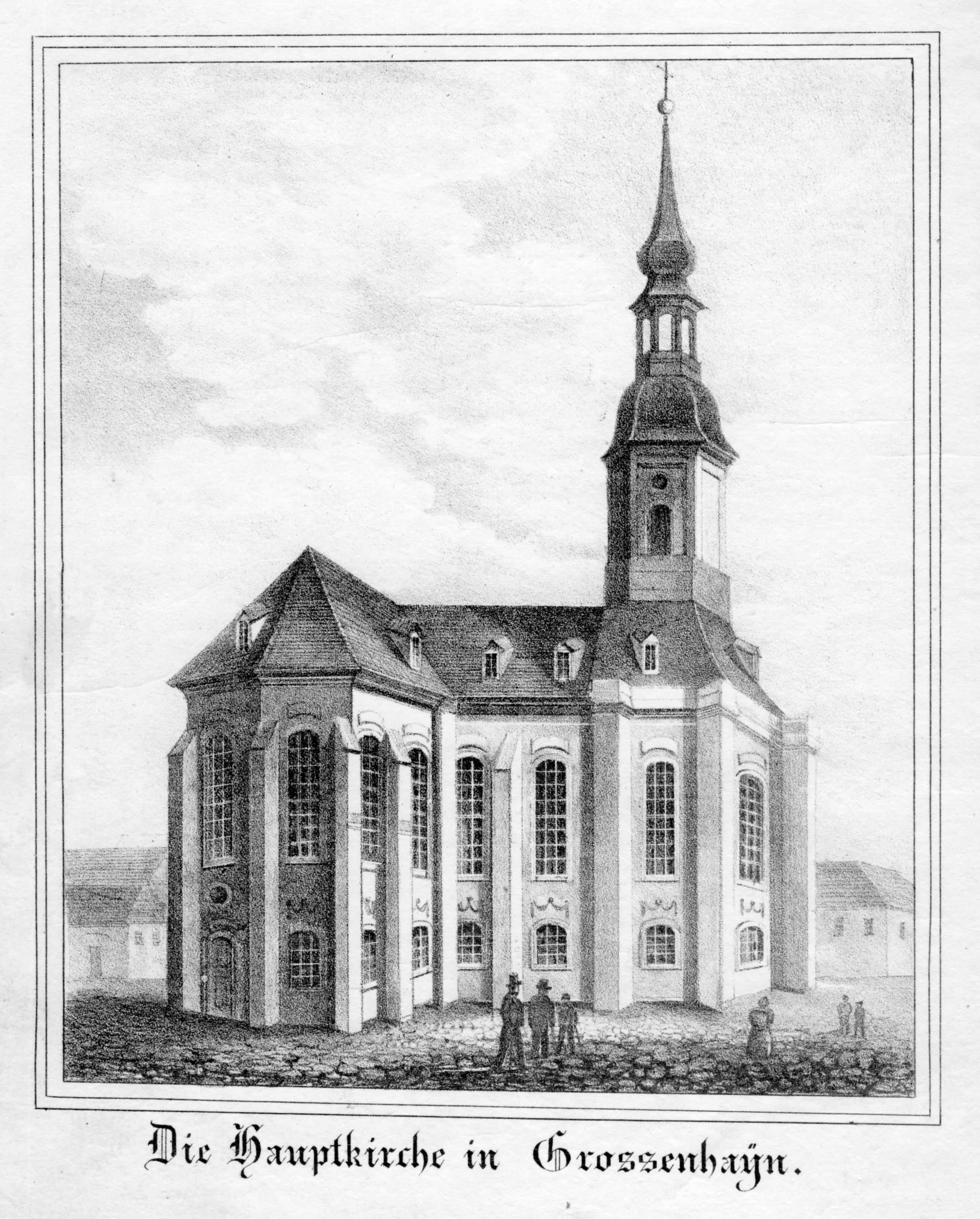 The main Church in Großenhain, Marienkirche